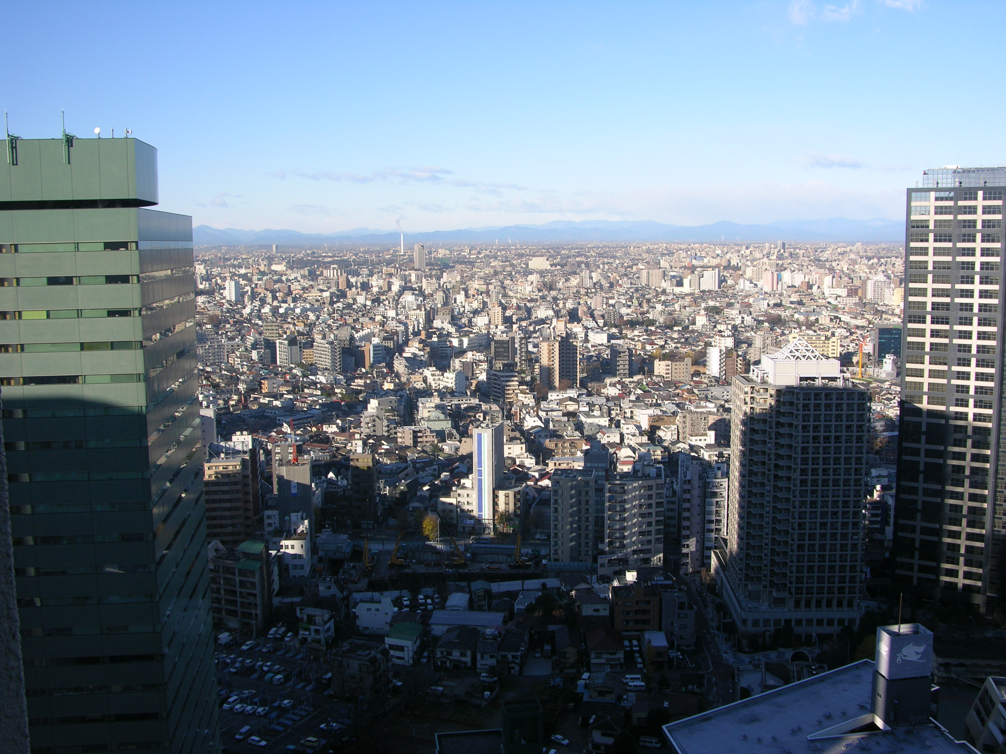 Panoramic view of Tokyo, from the 24th floor at the Hilton Tokyo. Japan. Author: Zaida Montañana, December 2005. Nikon Coolpix 8Mpixels.